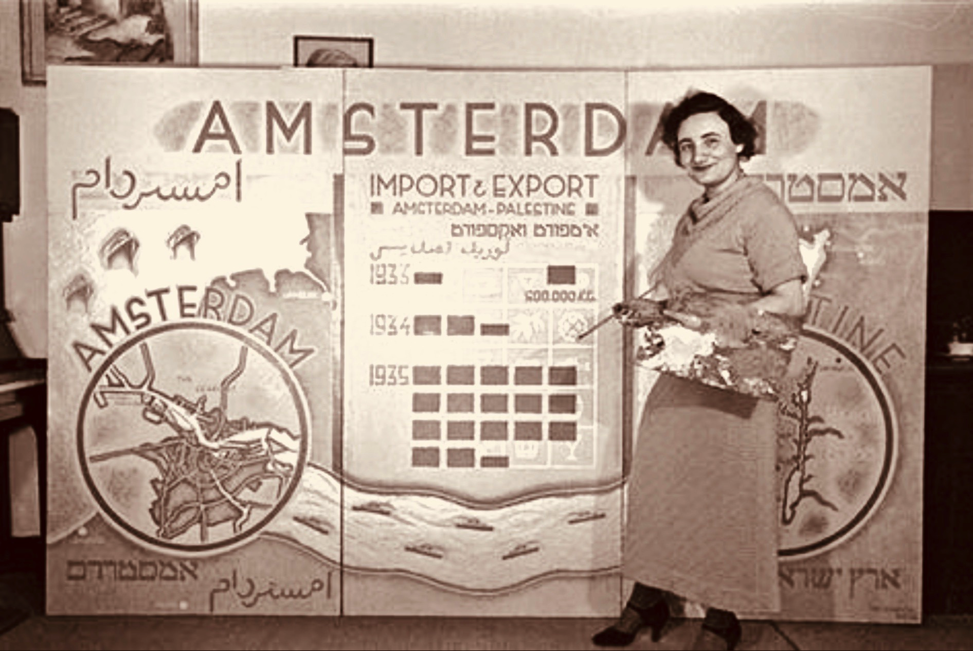 Fré Cohen (1903–1943) with her colour palette in front of a graphic project